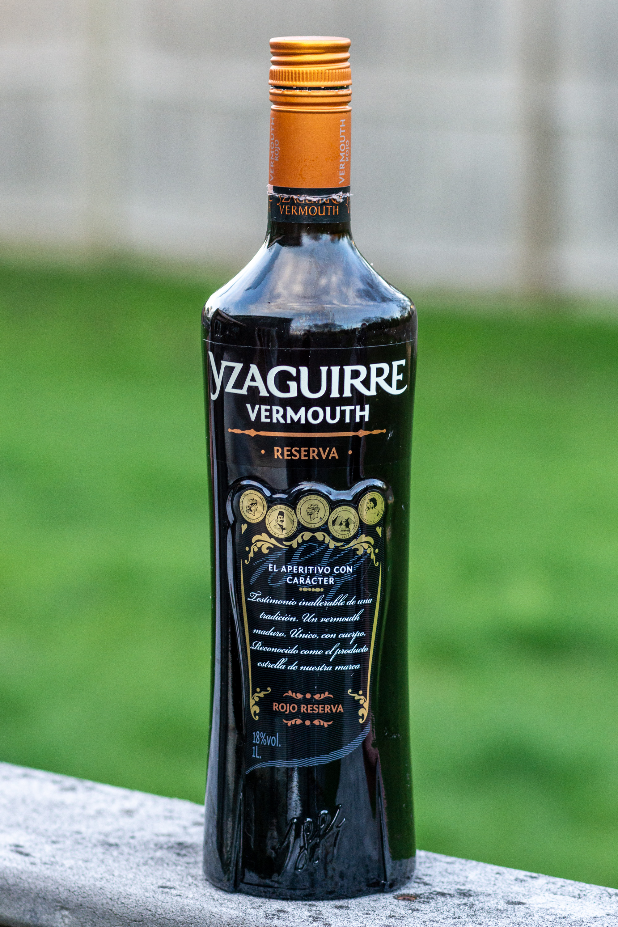 Bottle of Yzaguirre Vermouth. Sort del Castell winery in El Morell, between Reus and Tarragona. (purchased in Barcelona, Spain, 2020)